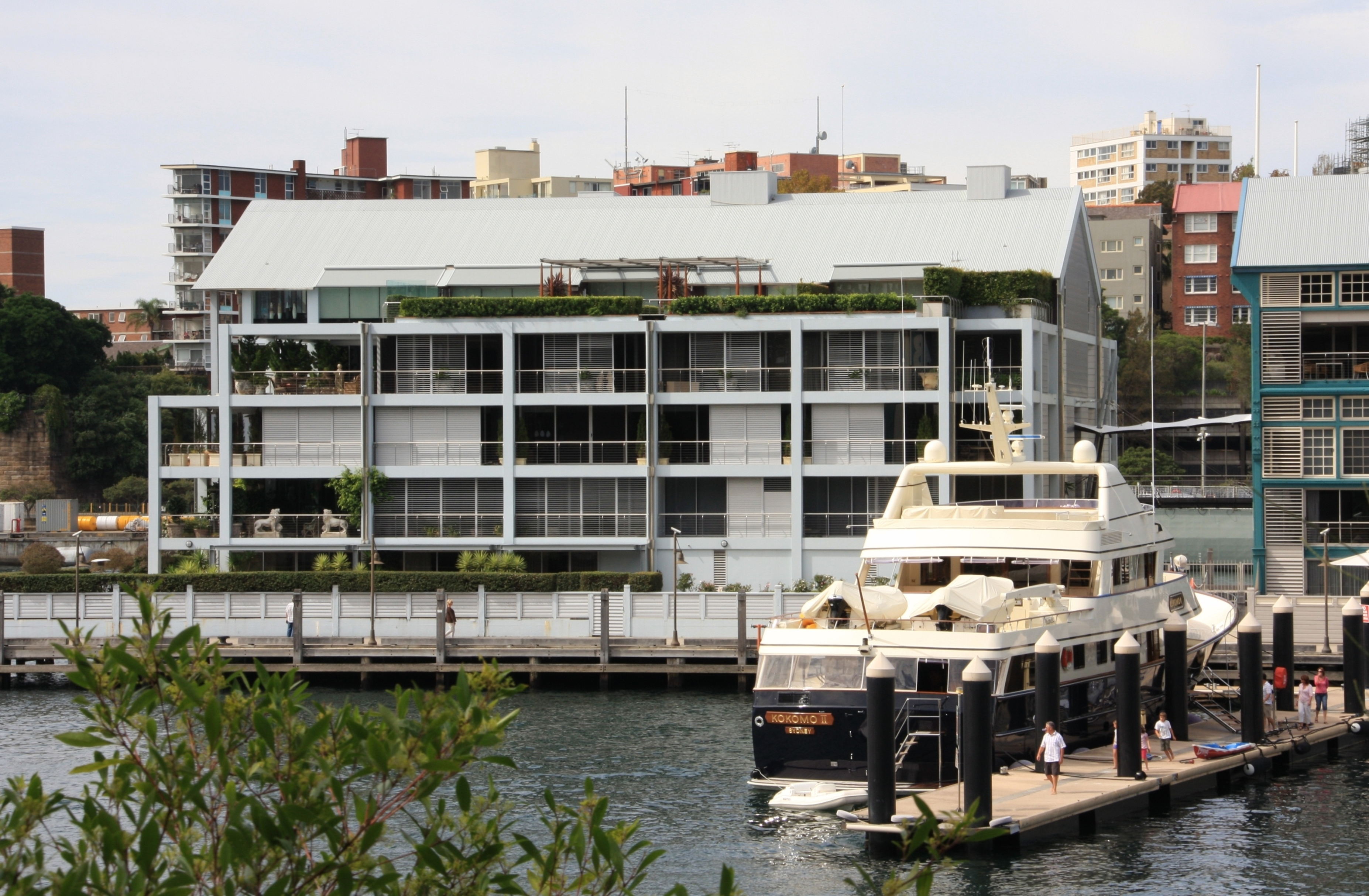 Woolloomooloo, New South Wales